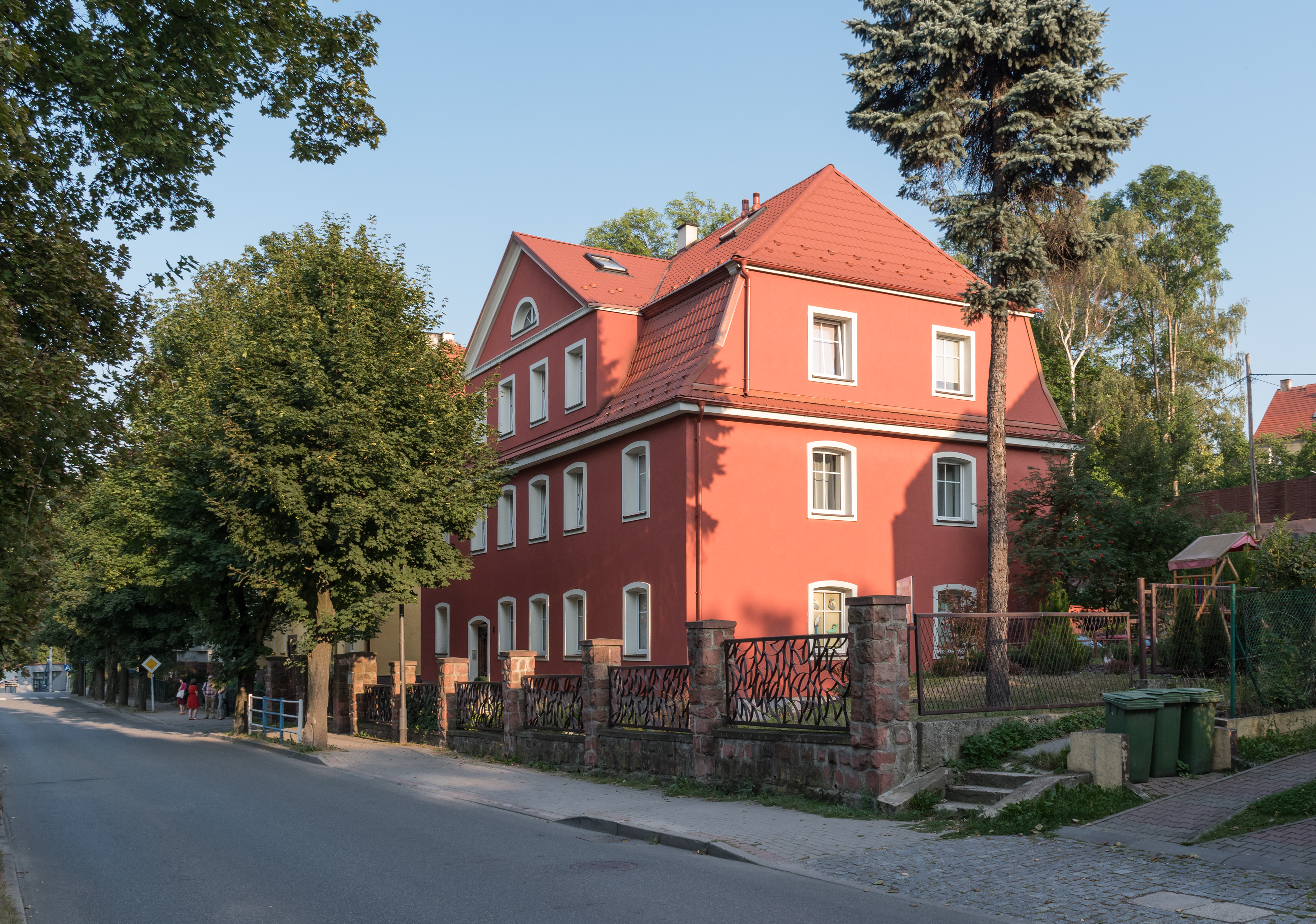 3 Żeromskiego Street in Nowa Ruda